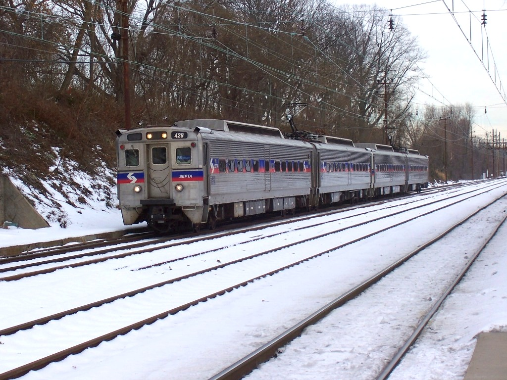 SEPTA Regional Rail R5 train approaching the Paoli station.